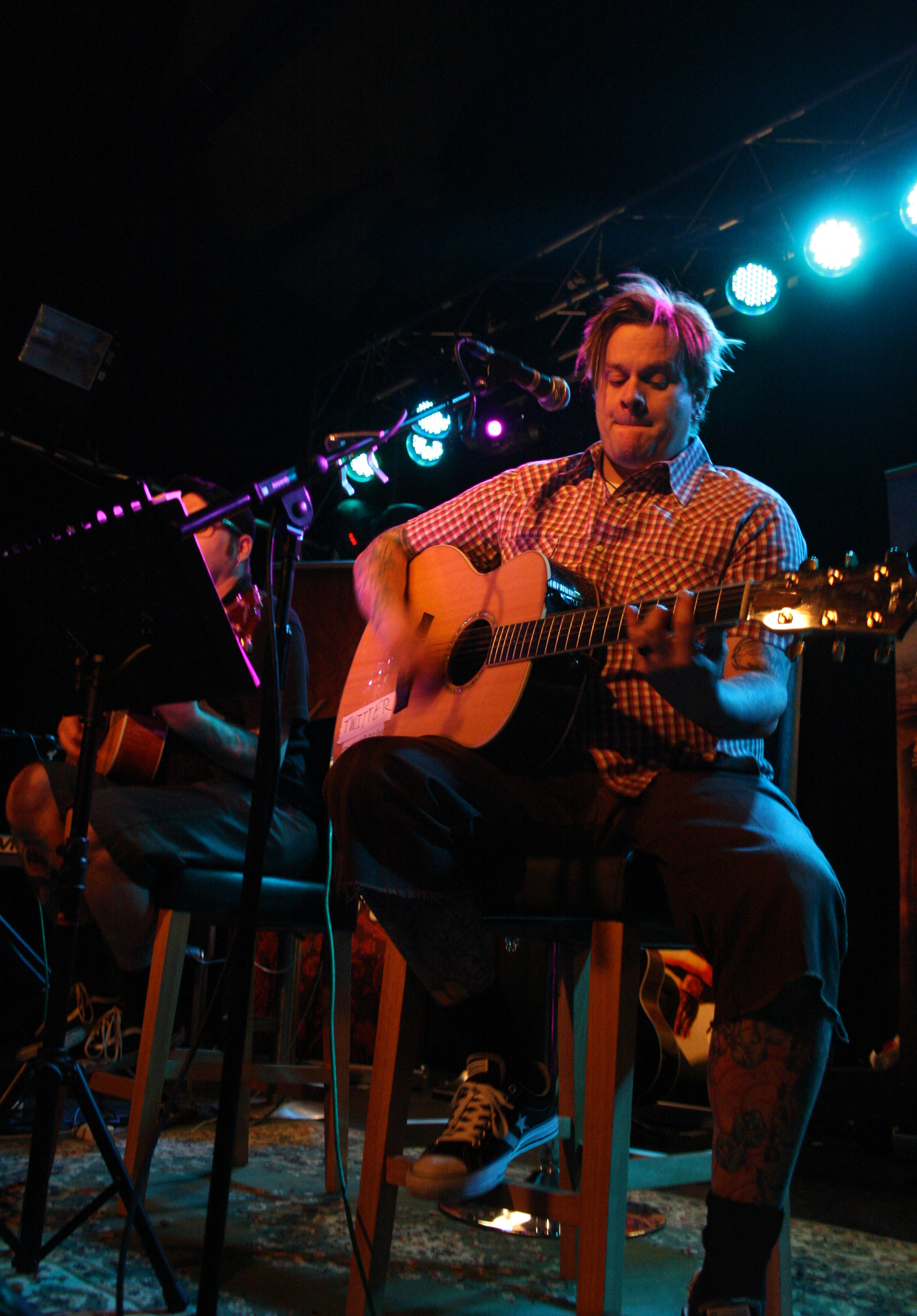 Bowling For Soup Acoustic Set, O2 Academy Oxford - 13/04/11